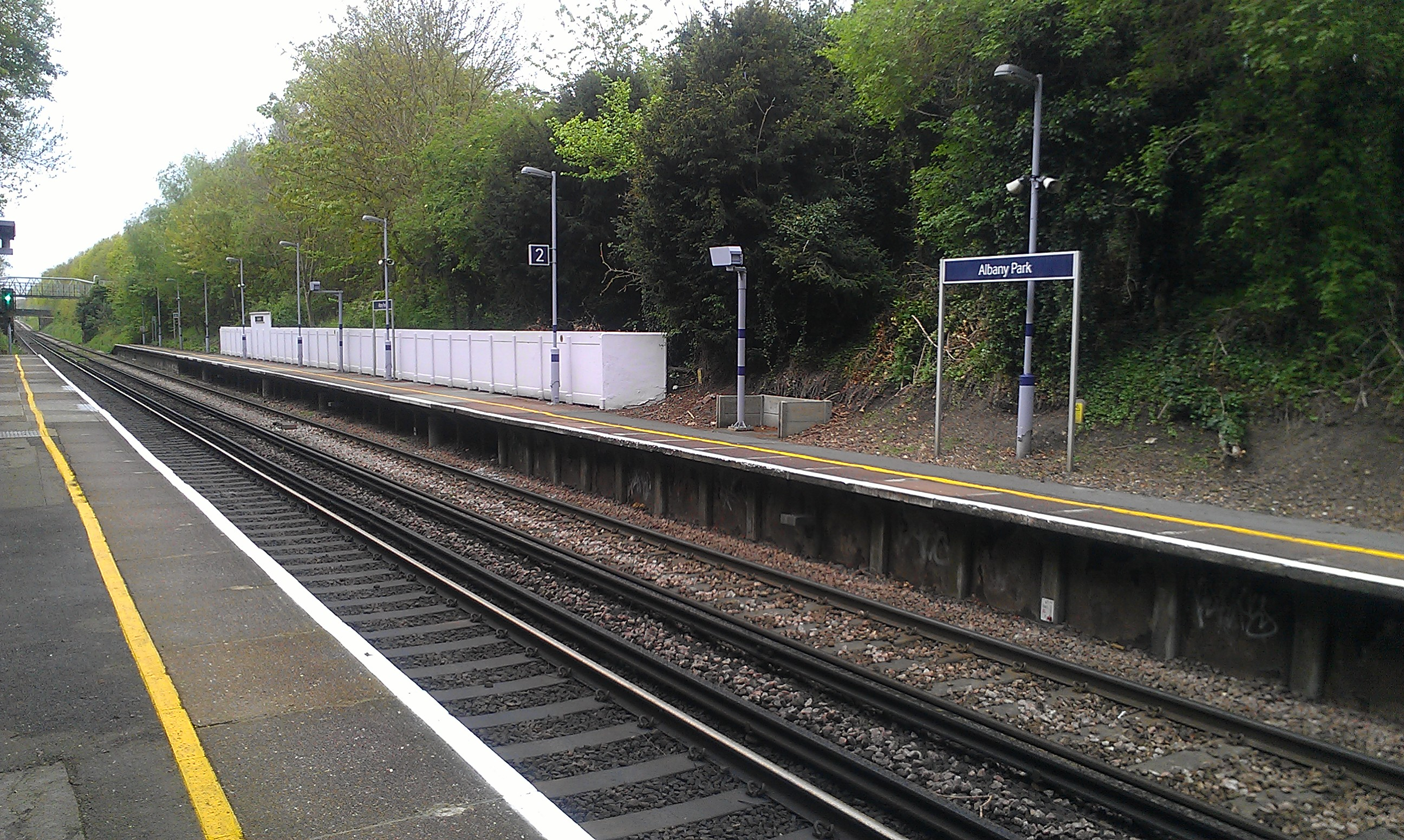 Albany Park railway station platform, summer 2012.